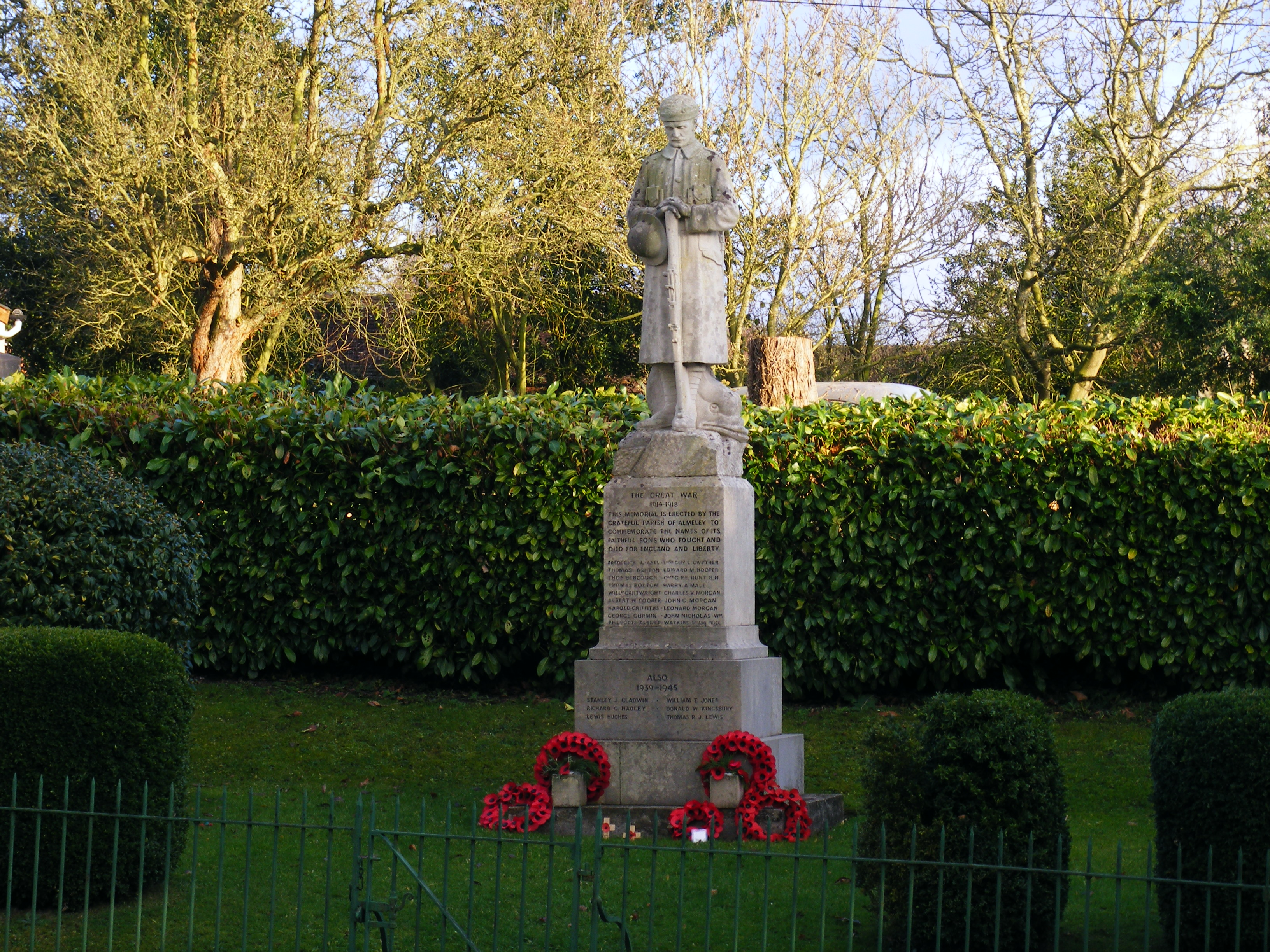 Almeley, Herefordshire. The War Memorial.